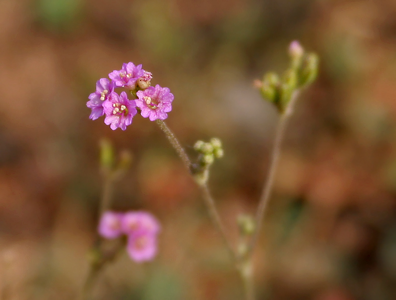 Boerhavia diffusa - Spreading Hogweed, Punarnava or Red spiderling in Amaravati, Andhra Pradesh, India.